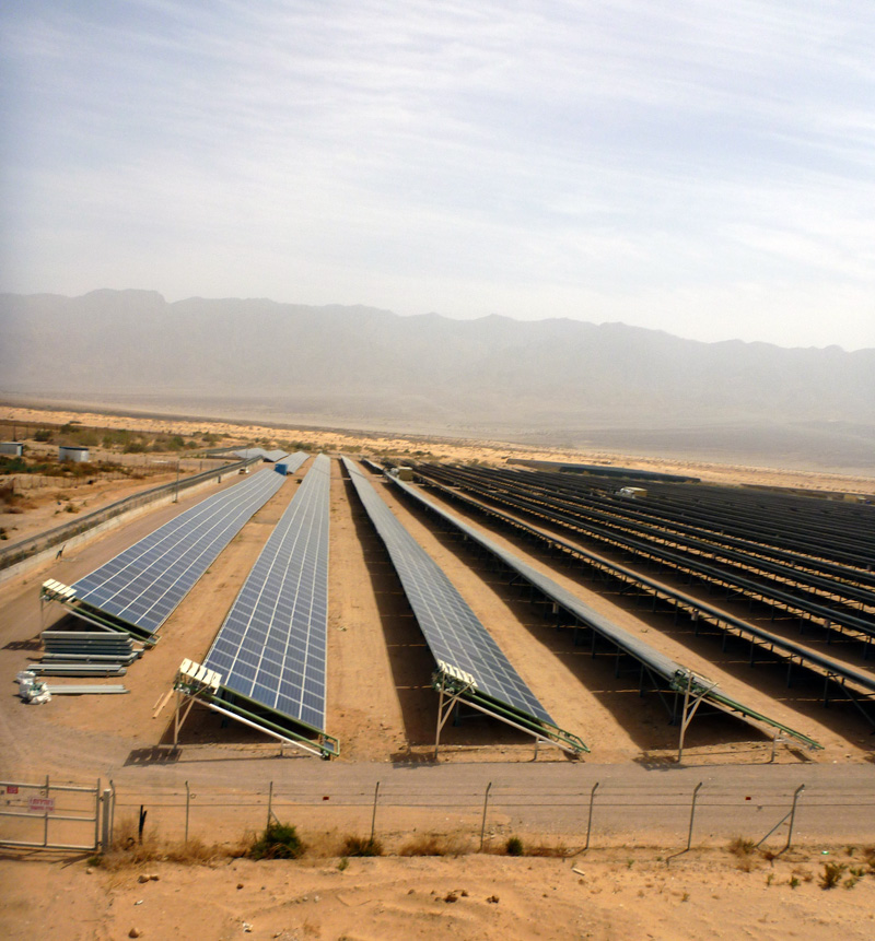 A view from above of the solar field of Kibbutz Elifaz located in southern Israel.